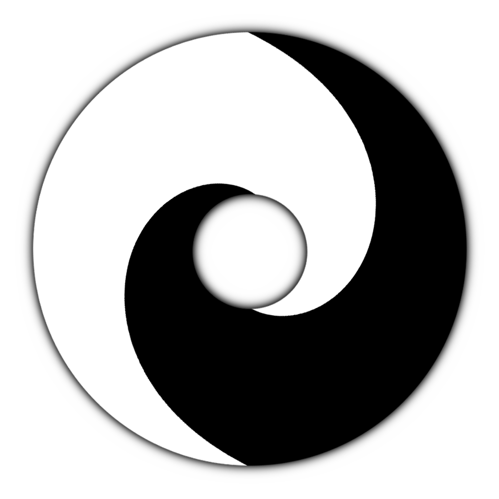 Hong Kong historian confirmed this is the oldest Tai Chi symbol by 2015, this symbol also discovered at 2017 from Qujialing culture after the restoration. [1]